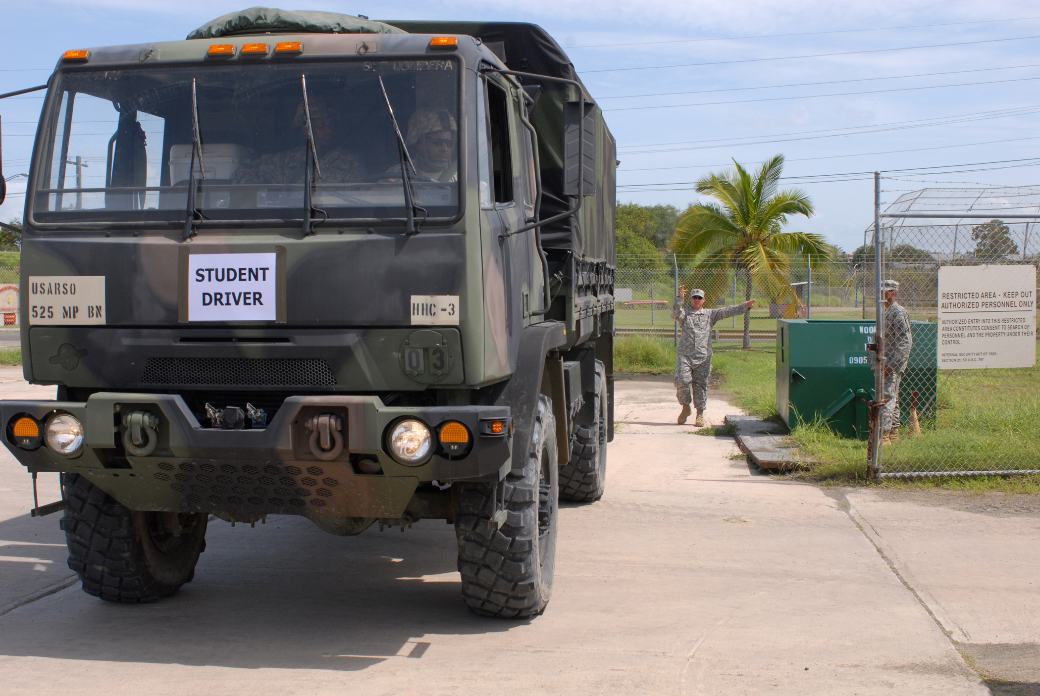 A Joint Task Force Guantanamo service member demonstrates proper parking techniques using a ground guide after completing drivers' training at U.S. Naval Station Guantanamo Bay, June 26. The 525th Military Police Battalion trained service members on how to drive light medium tactical vehicles. JTF Guantanamo conducts safe, humane, legal and transparent care and custody of detainees, including those convicted by military commission and those ordered released by a court. The JTF conducts intelligence collection, analysis and dissemination for the protection of detainees and personnel working in JTF Guantanamo facilities and in support of the War on Terror. JTF Guantanamo provides support to the Office of Military Commissions, to law enforcement and to war crimes investigations. The JTF conducts planning for and, on order, responds to Caribbean mass migration operations.